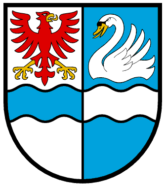 Coat of Arms of Villingen-Schwenningen